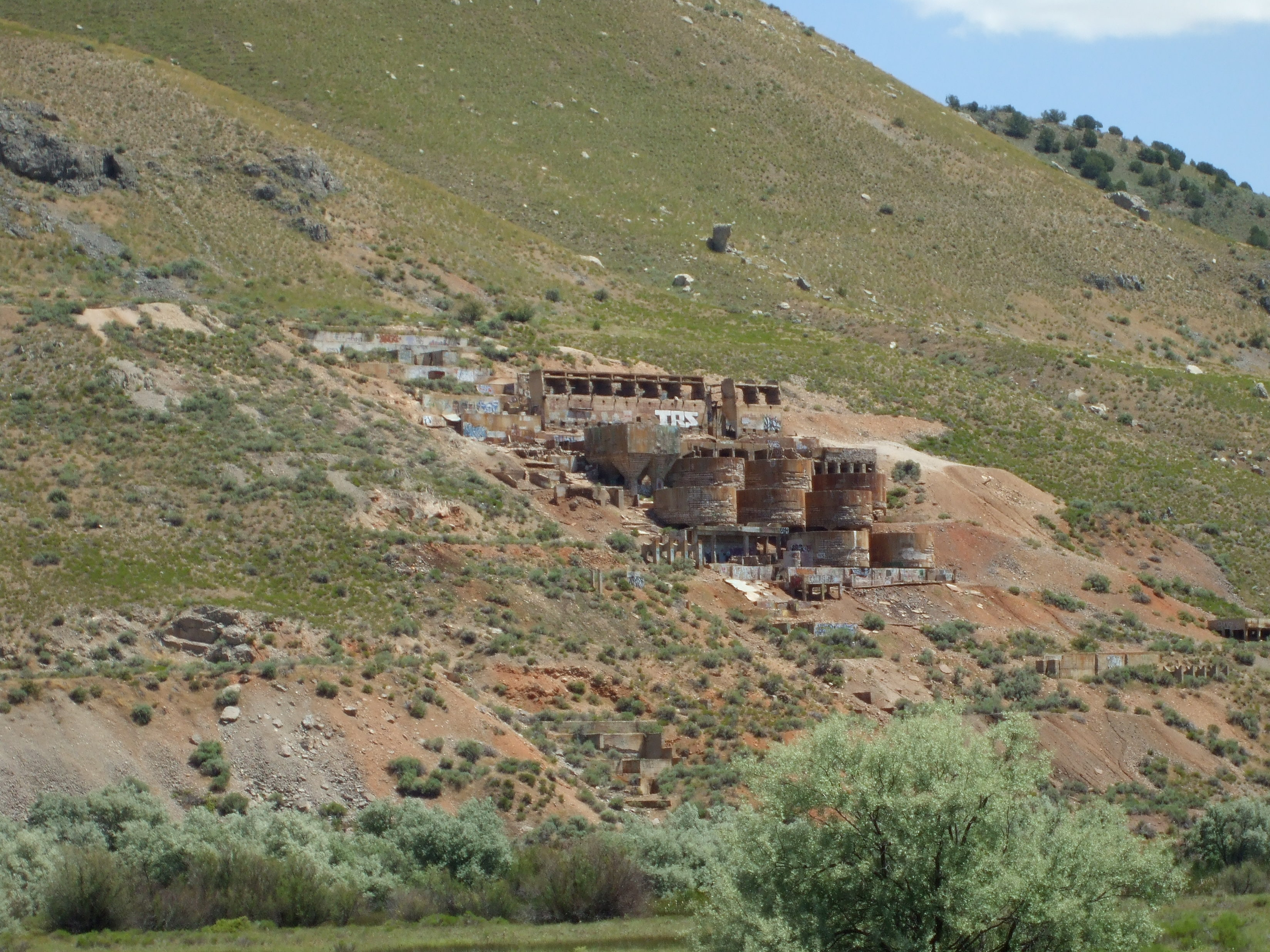 View of the Tintic Standard Reduction Mill from Utah State Route 141 near Goshen, Utah, United States.